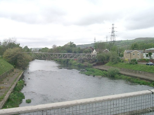 River Taff, Upper Boat, Treforest